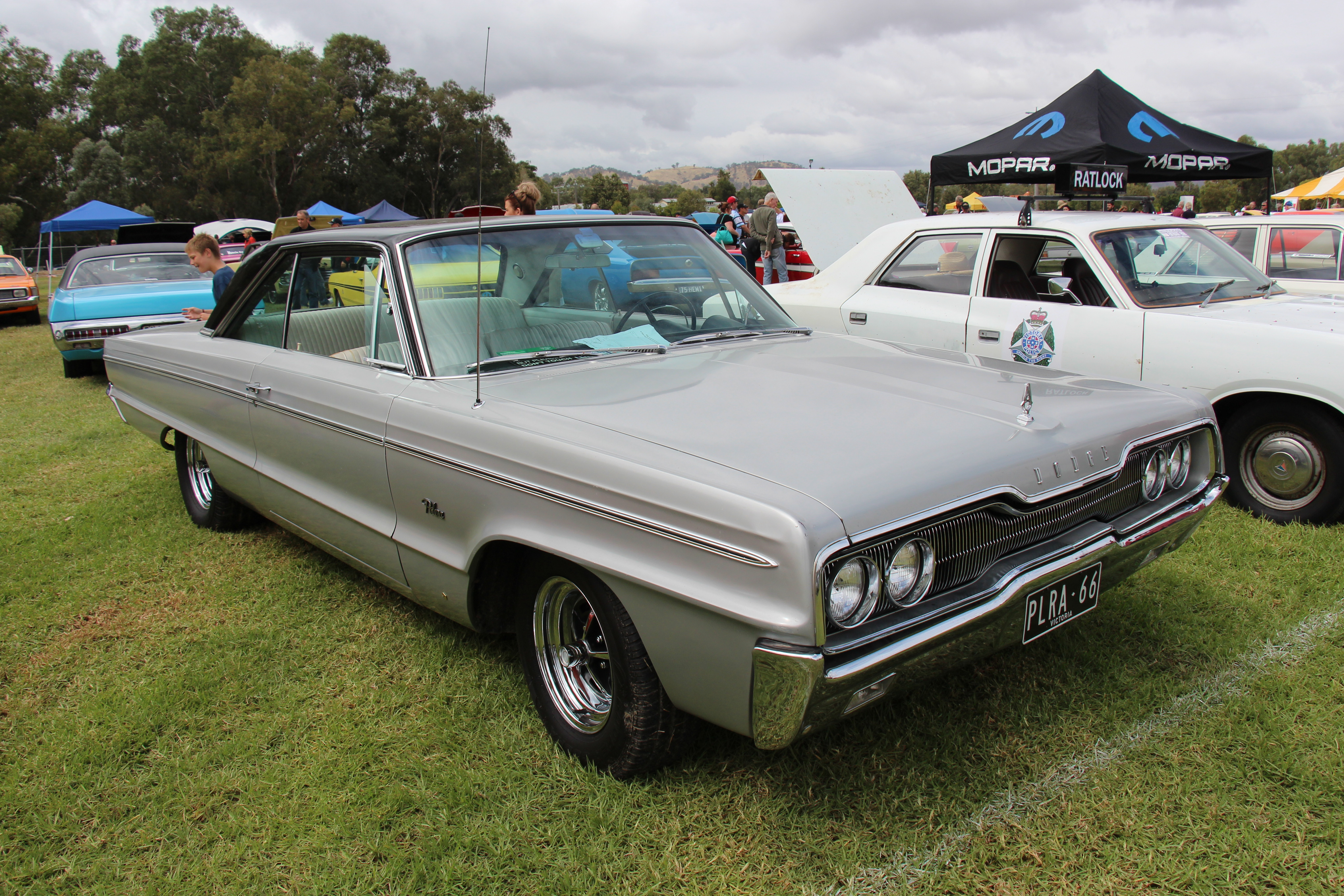 The 1965-68 3rd generation Polara was again built on the full size platform, with square edged styling. The base Dodge was the Phoenix, this the mid spec Polara and top of the line for this generation was the Monaco. It was available in 4 door sedan and wagon, also 2 door coupe and convertible. Engines; 318, 383, 413, 440 or 426 V8s